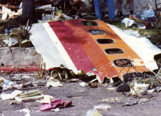 Tragic PSA Crash Flight 182 Sept 25, 1978